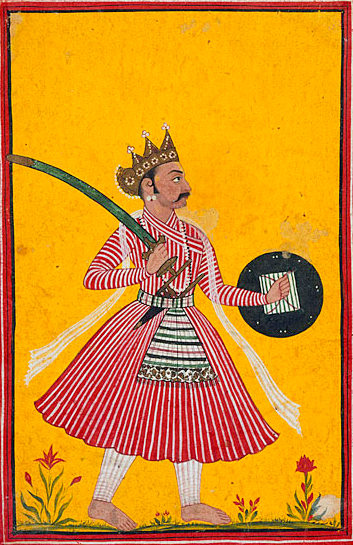 Dream Portrait of Nakula, The Pandava Brother, circa 1725-1750 Painting; Watercolor, Opaque watercolor and gold on paper, Image: 6 5/8 x 4 1/4 in. (16.83 x 10.8 cm); Sheet: 8 3/8 x 6 1/16 in. (21.27 x 15.4 cm) From the Nasli and Alice Heeramaneck Collection, Museum Associates Purchase (M.83.1.9)